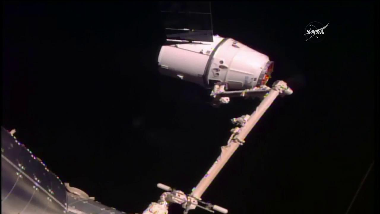 The SpaceX Dragon is pictured in the grips of the Canadarm2 shortly after its capture by astronauts Shane Kimbrough and Thomas Pesquet.